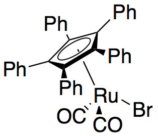 chemoenzymatic DKR Ru cat (racemization)